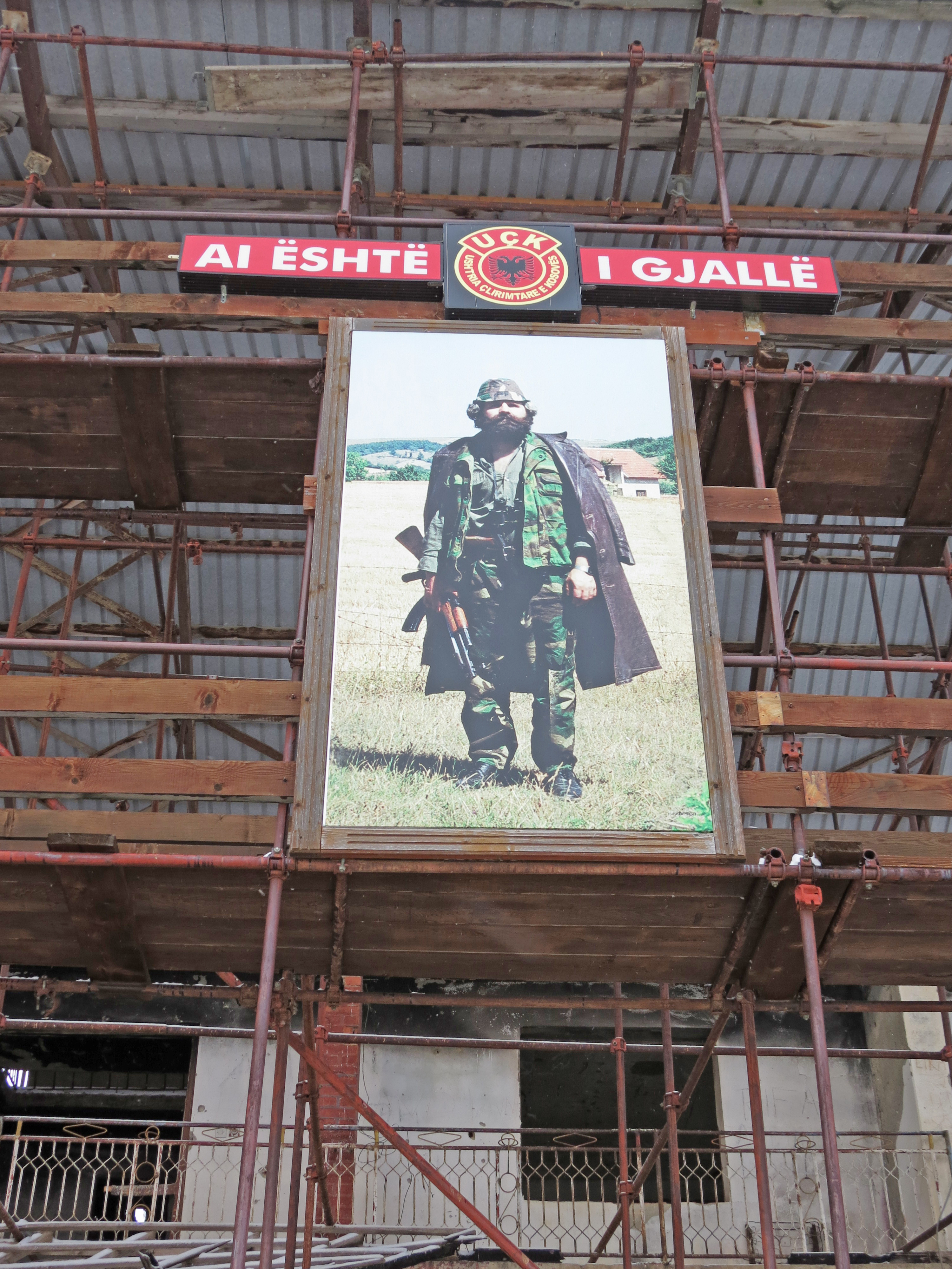 Adem Jashari Memorial Complex in Prekaz, Kosovo, with the house in which Adem Jashari and more than 60 other people were murdered in the Attack on Prekaz (1998).